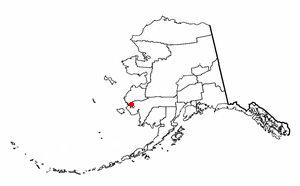 Adapted from Wikipedia's AK borough maps by Seth Ilys.